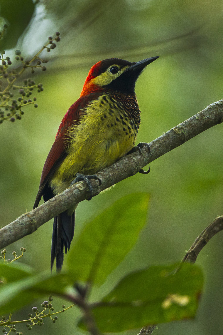 Crimson-mantled Woodpecker - Colombia_S4E2671